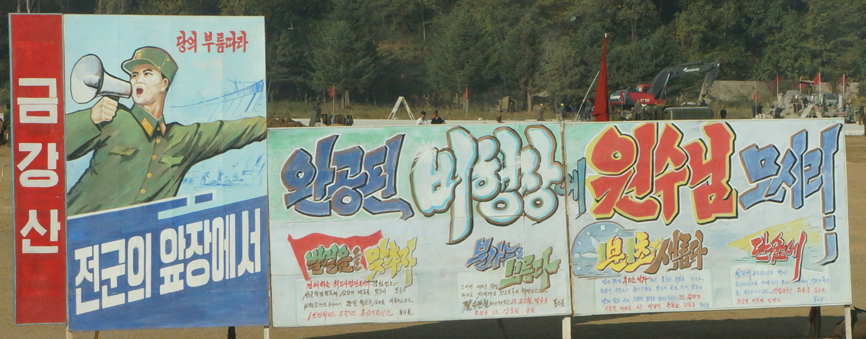 Construction of new runways at the Pyongyang Sunan International Airport